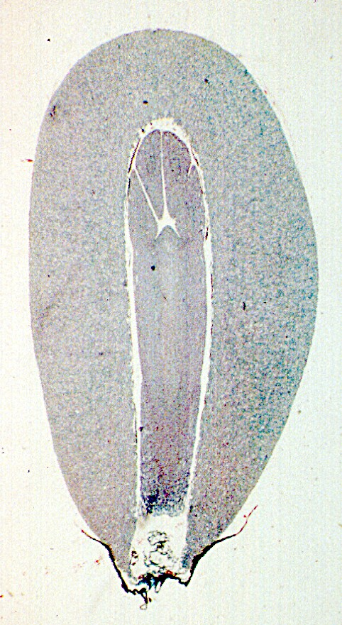 Light micrograph of a longitudinal section of a pine female gametophyte and embryo